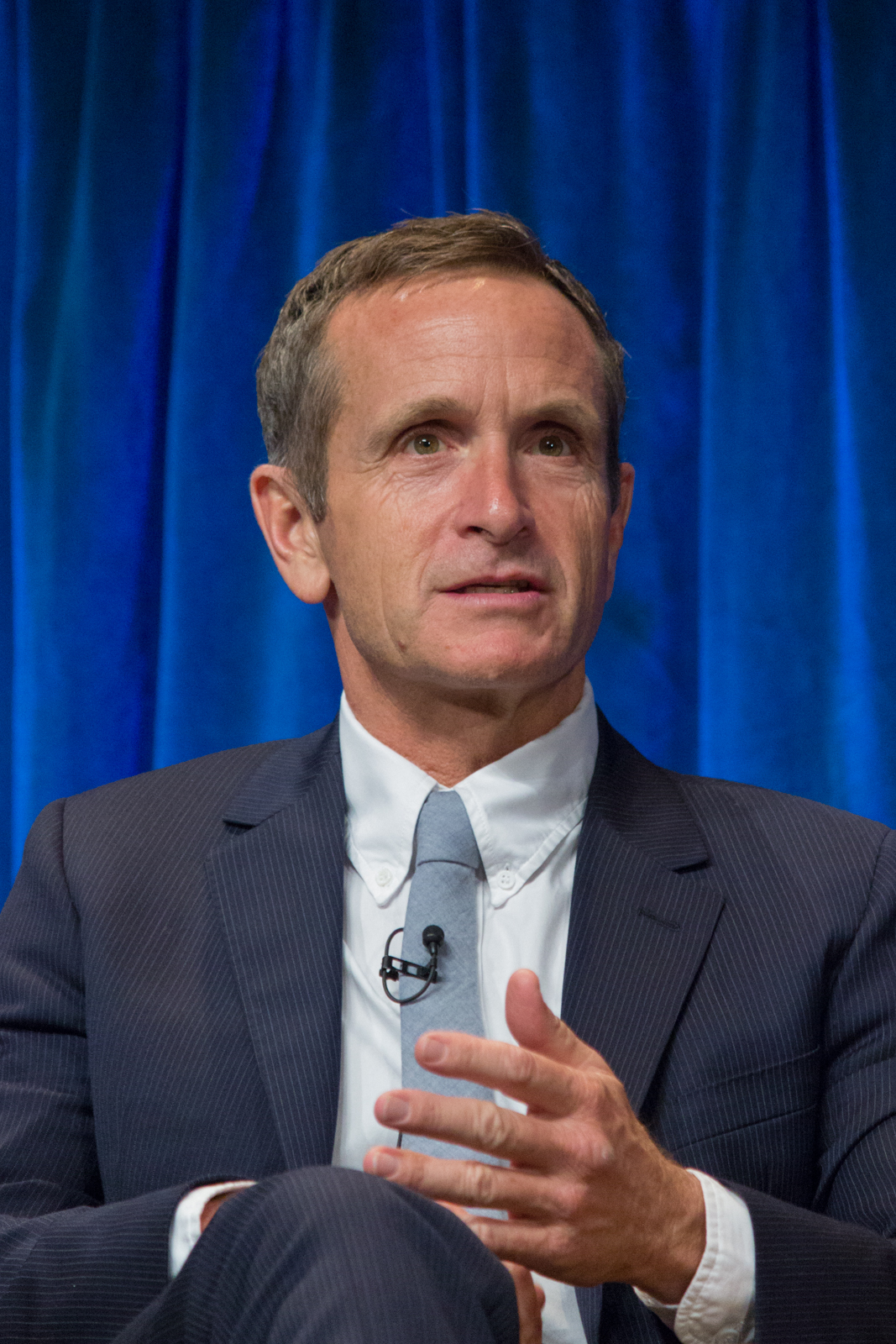 Dante Di Loreto at PaleyFest 2013 for the TV show "American Horror Story: Asylum"